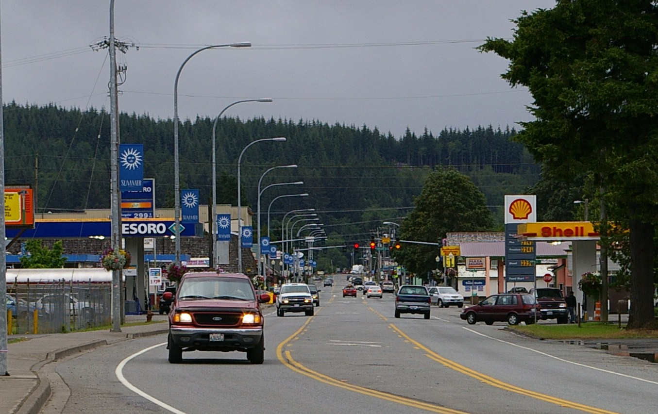 Forks WA from North of town, cropped